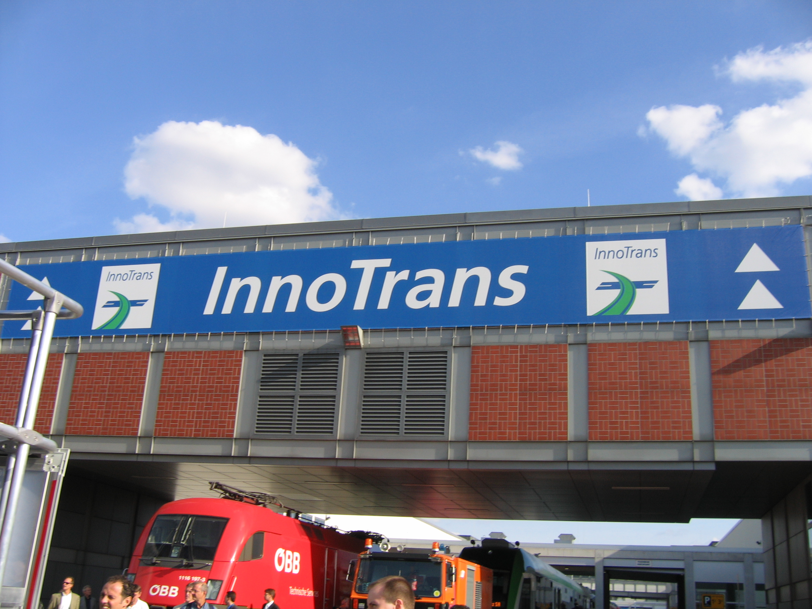 Innotrans Main EntranceInnotrans 2006, Berlin